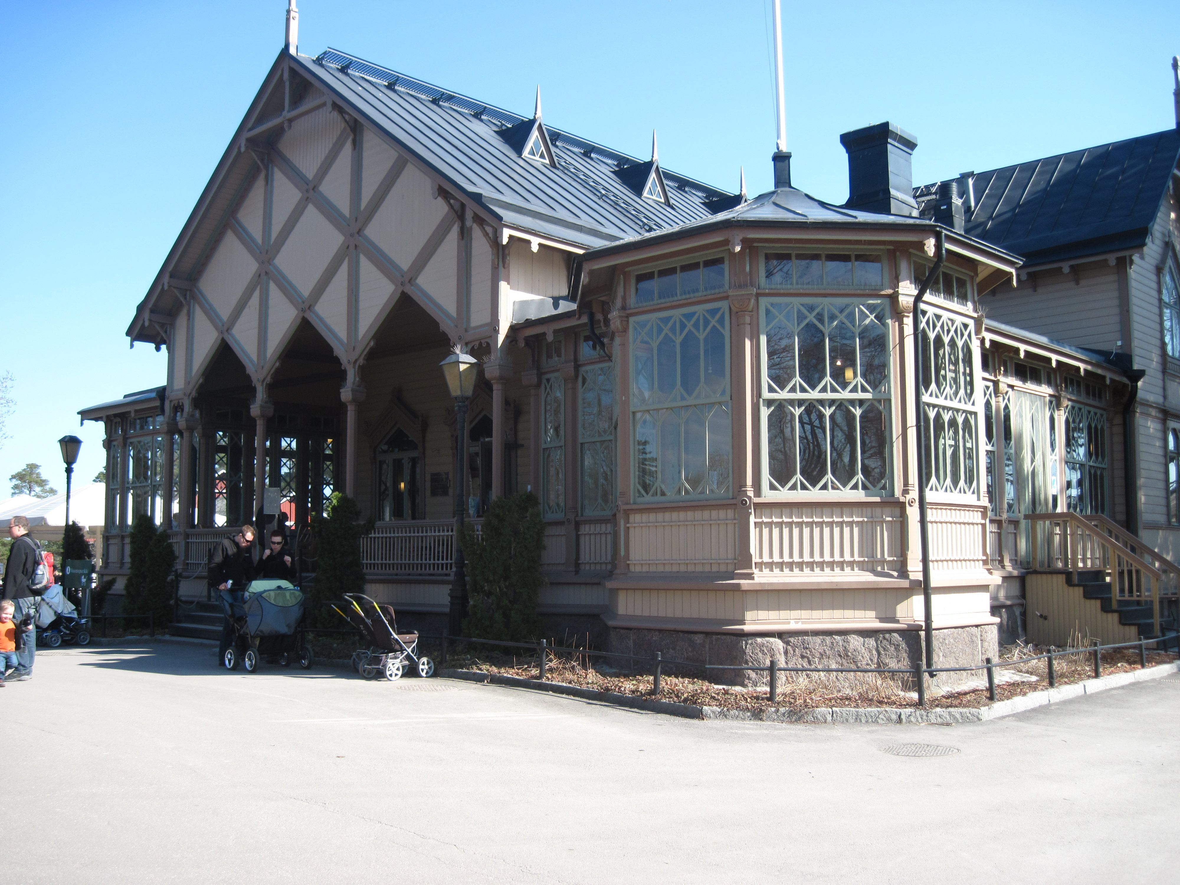 Restaurant Pukki, in Korkeasaari, Helsinki, Finland. Completed in 1884. Architect: Theodor Höijer.